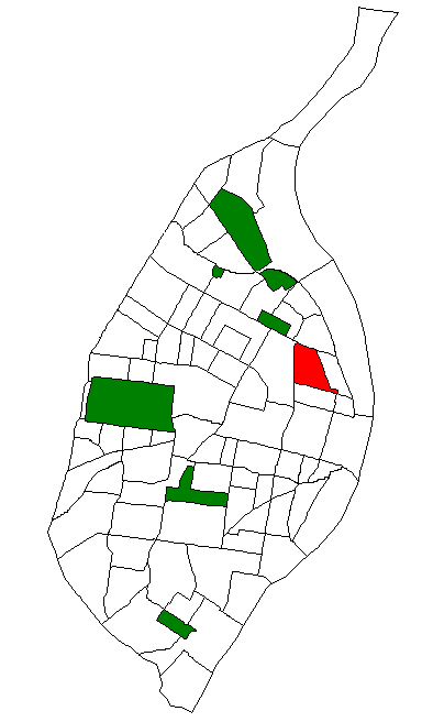 Map of St. Louis Neighborhood #60 (St. Louis Place)